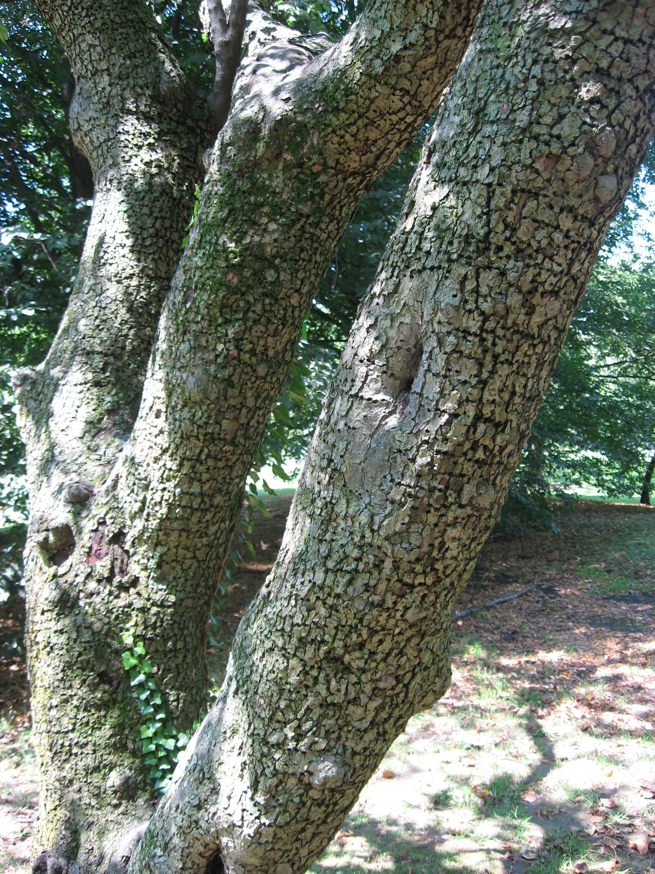 A picture of the trunk of Malus baccata.